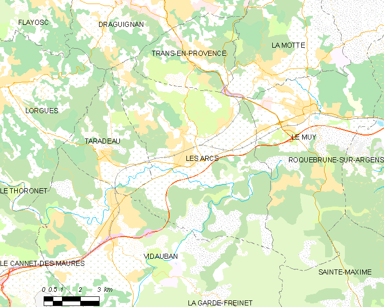 Map of French municipality Les Arcs